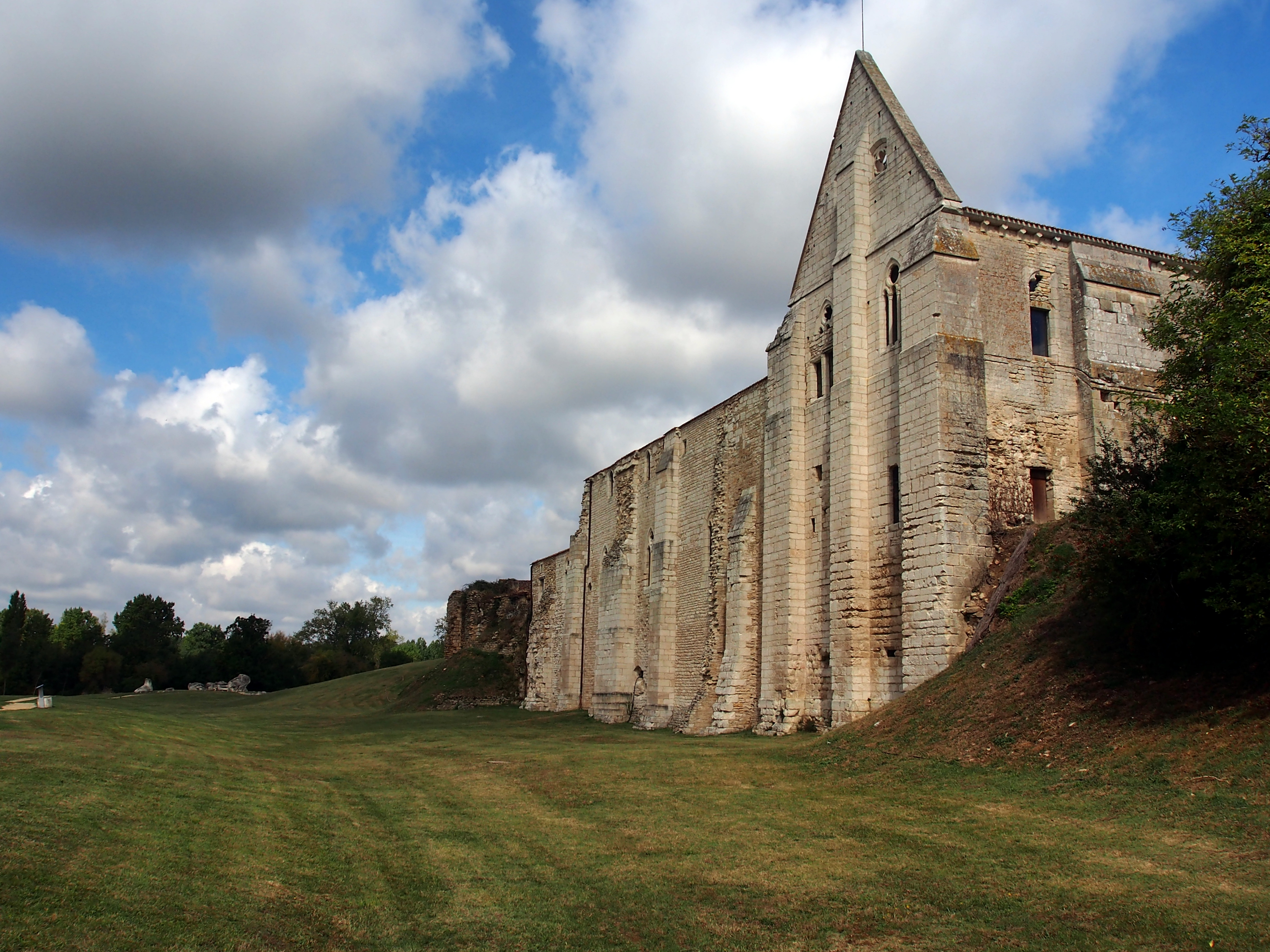 Photographed in France.